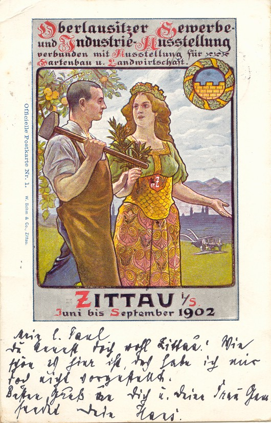 Zittau industrial exhibition 1902